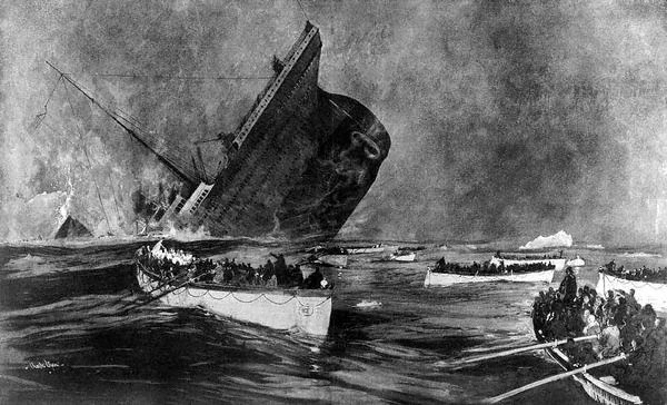 Loss of the Titanic. Published in the Graphic Supplement of 27 April 1914